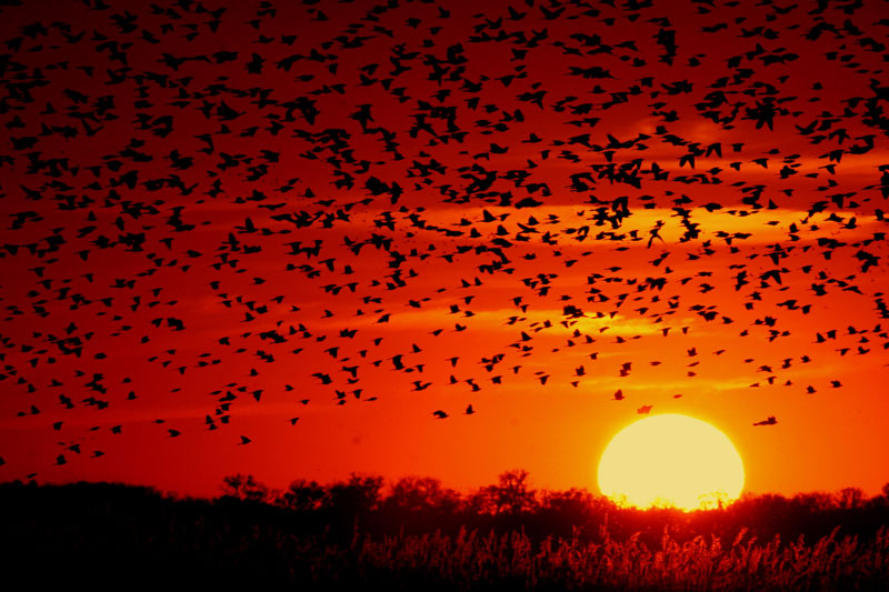 A flock of Red-winged Blackbirds (Agelaius phoeniceus) flying into the sunset. Taken at Quivira National Wildlife Refuge in Kansas.